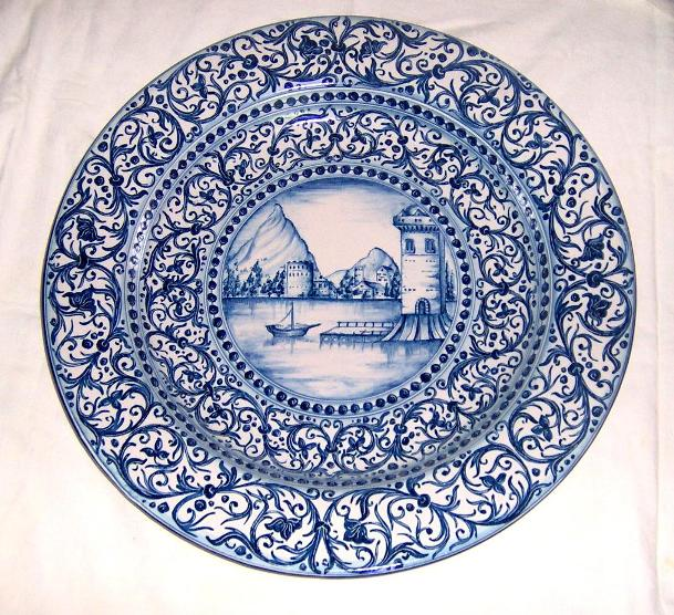 Ornamental majolica plate of Caltagirone, Sicily - Hand Made - produced by artistic ceramics Agatino Caruso of Caltagirone - Author: .